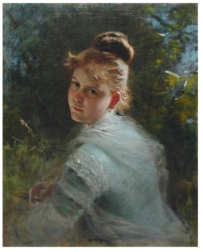 TITLE: Portrait of Sarah Choate Sears. ARTIST: Michele Gordigiani. WORK DATE: 1878. CATEGORY: Paintings. MATERIALS: Oil on canvas MARKINGS: Signed MGordigiani with initials in monogram and dated 1878, center left. SIZE: h: 28.5 x w: 23 in / h: 72.4 x w: 58.4 cm. GALLERY: Debra Force.